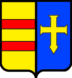 Basic coat of arms of the House of Holstein-Gottorp.